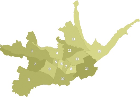 Urban parishs of Cuenca, Ecuador.